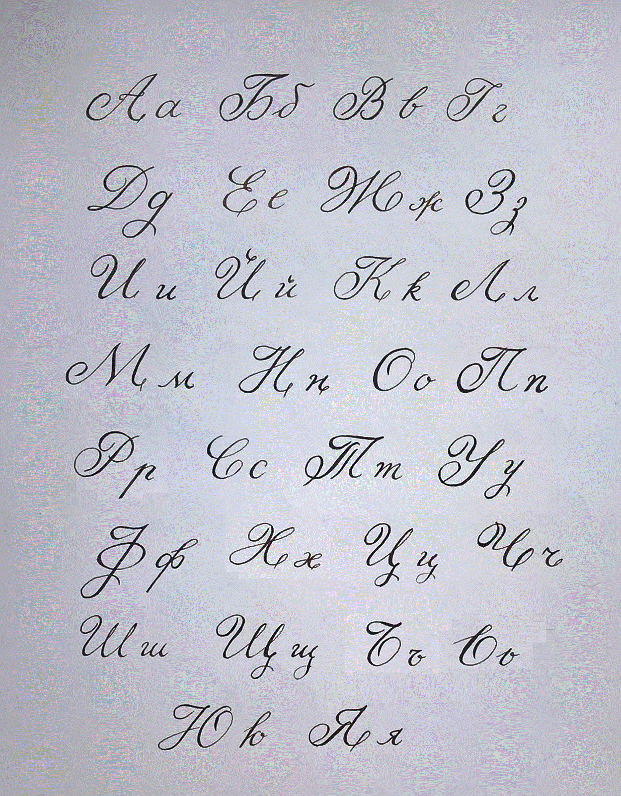 Bulgarian alphabet written in Copperplate style